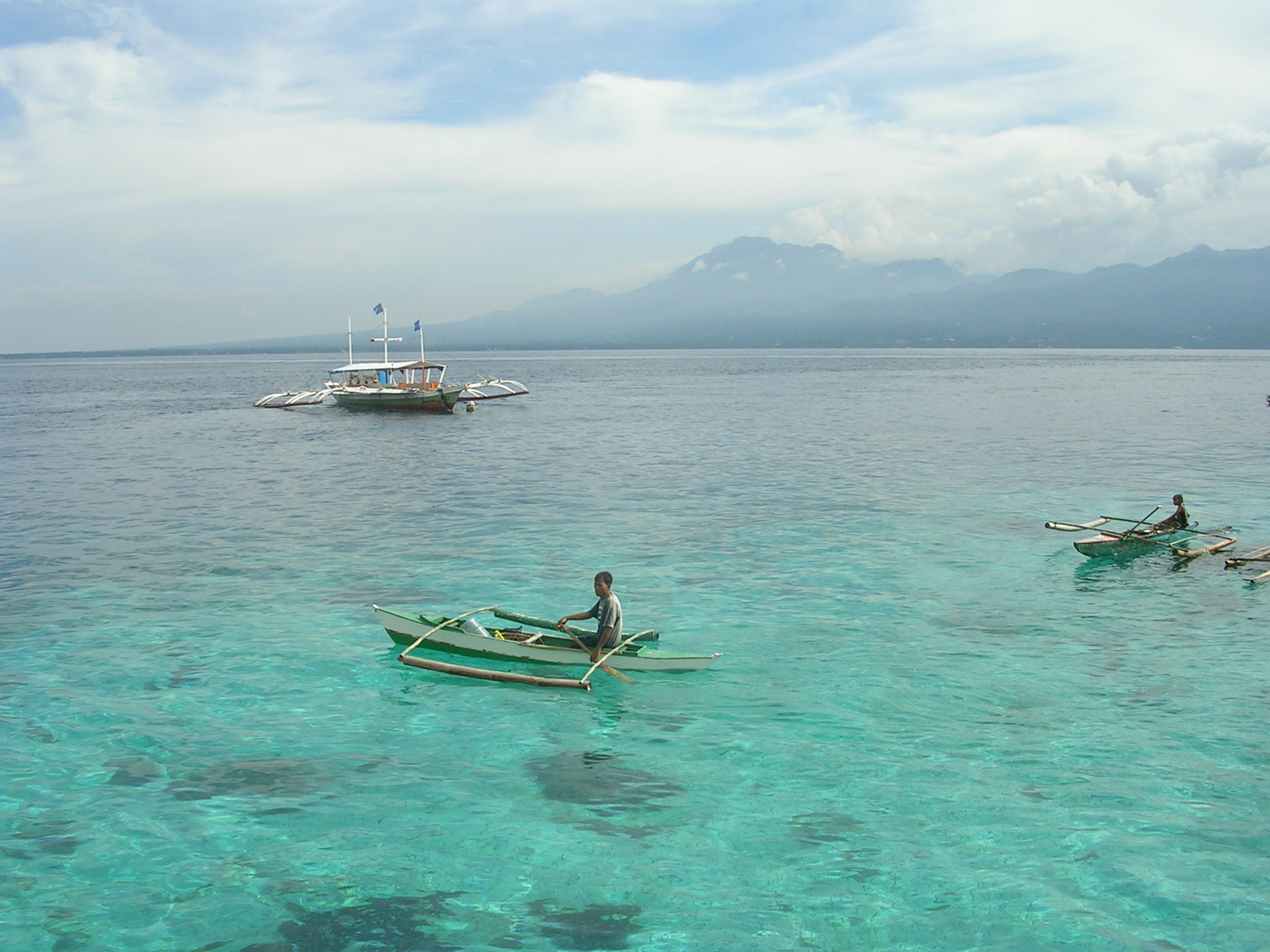 View towards the island of Negros, from the southern tip of Cebu Island